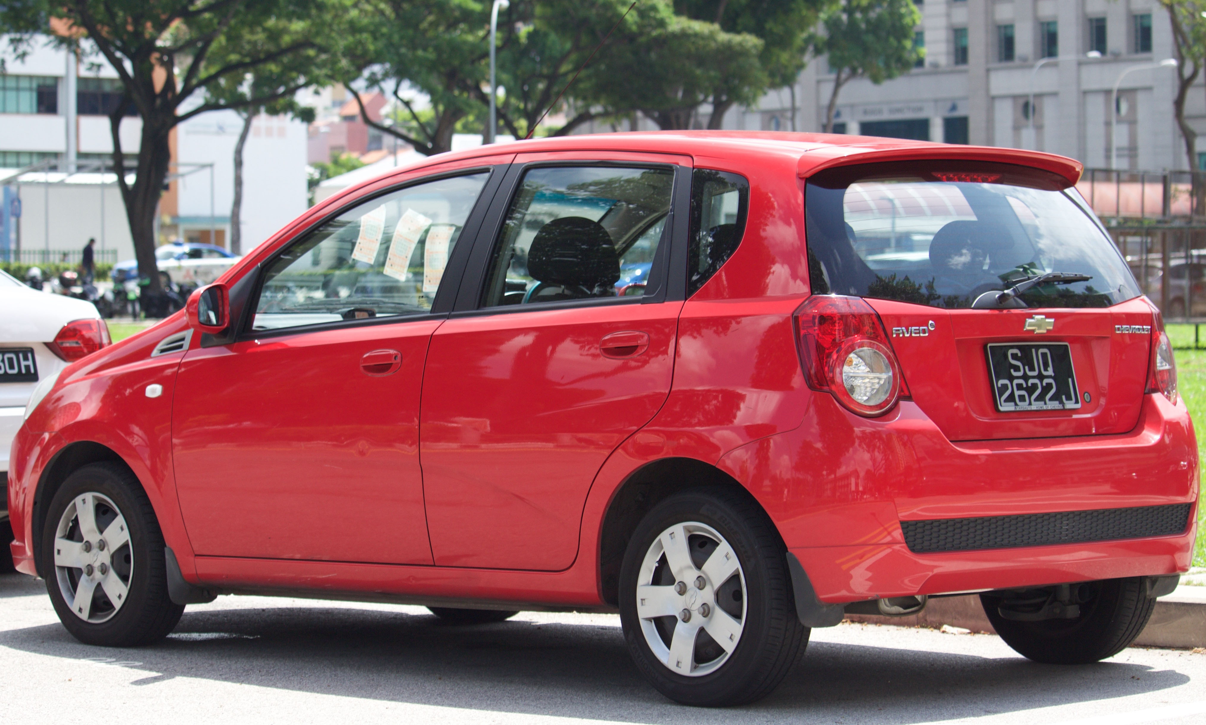 2009 Chevrolet Aveo (T250) 1.4 5-door hatchback. Photographed in Singapore.